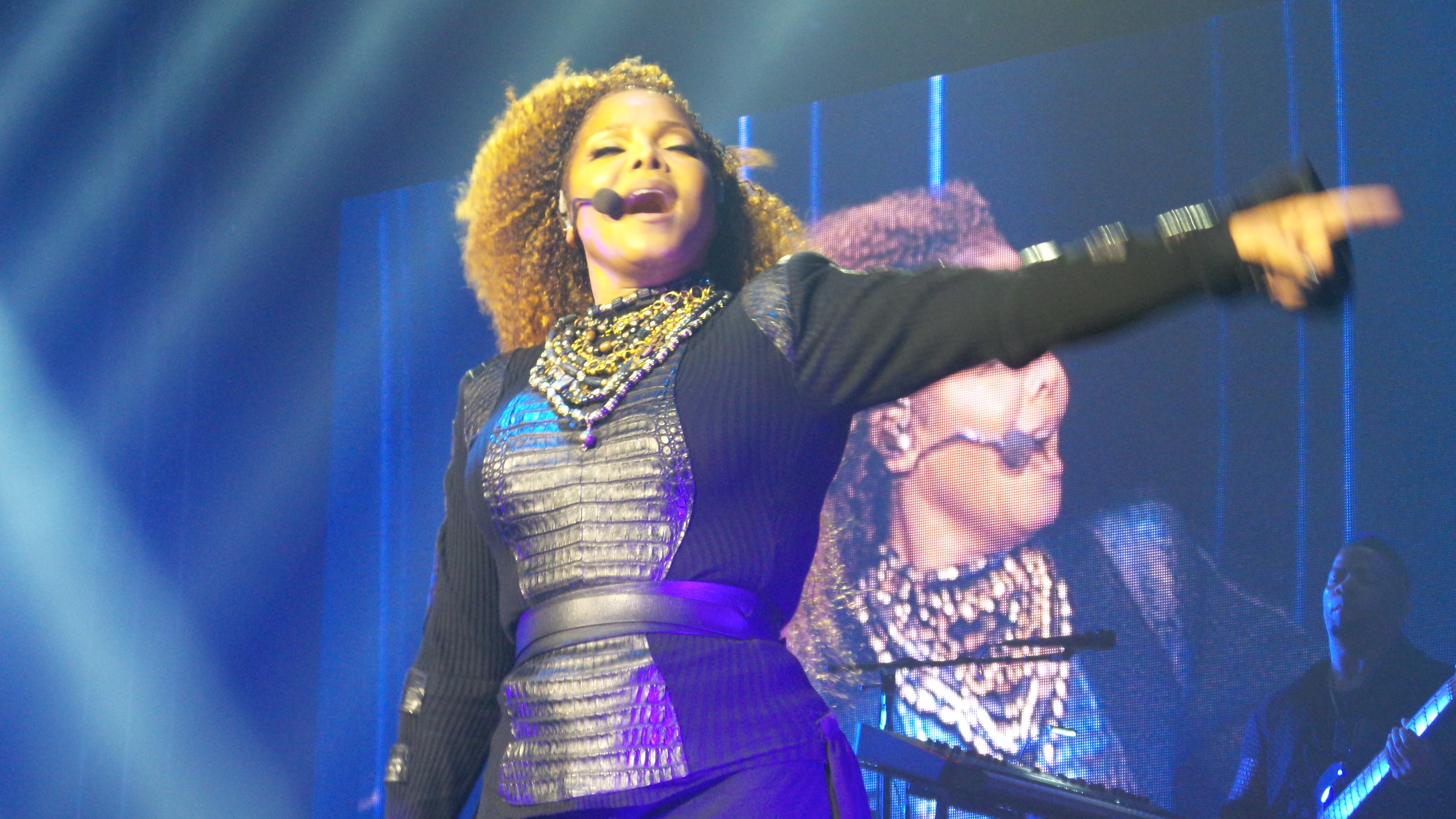 Janet Jackson Unbreakable Tour, Honolulu, Hawaii 2015